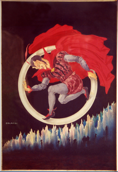 Poster by Orlandi Orlando.